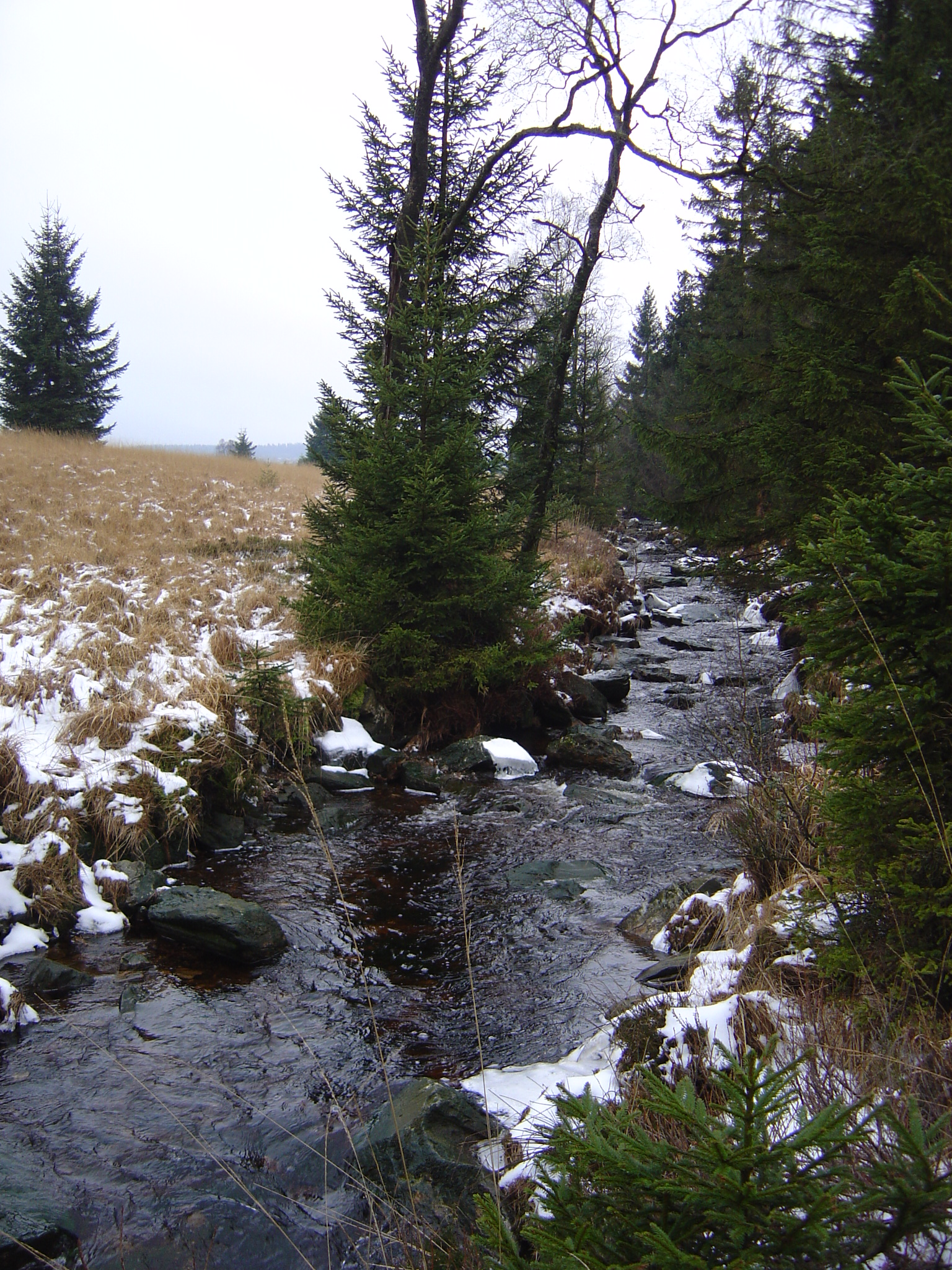 the Belgian river Helle near the Botrange